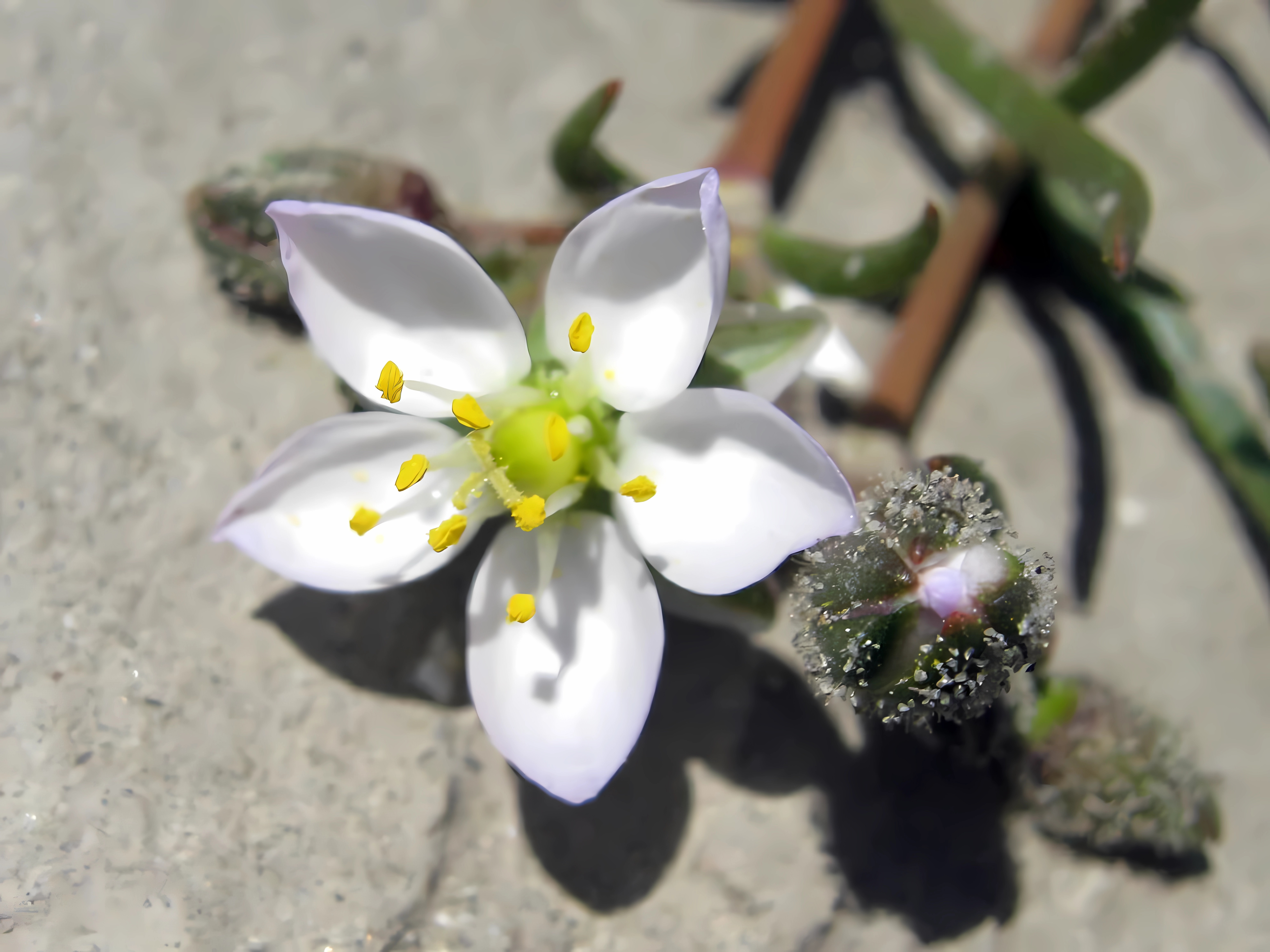 Spergularia maritima (All.) Chiov. - Media Sandspurry